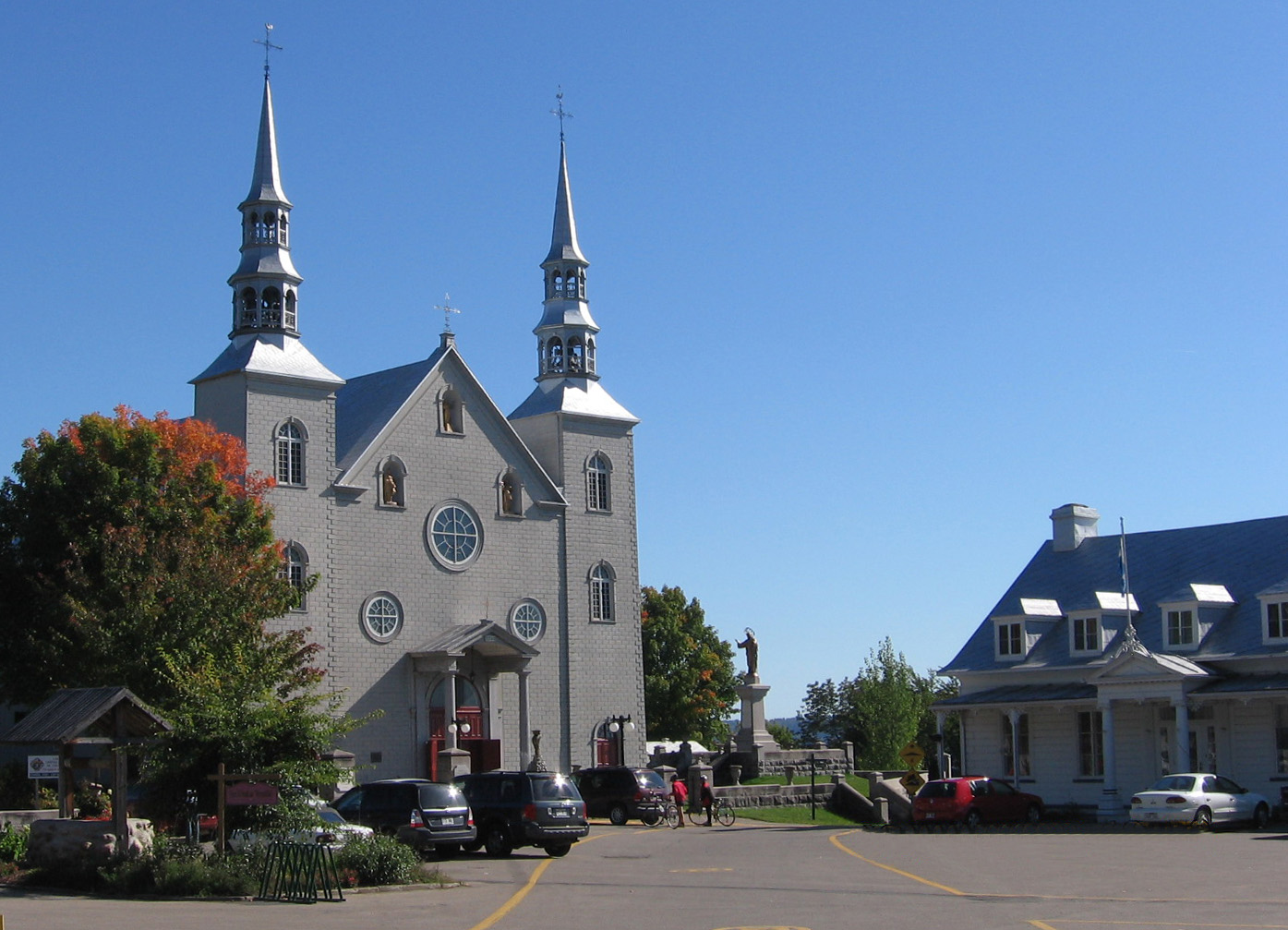 Cap-Santé church and presbytery